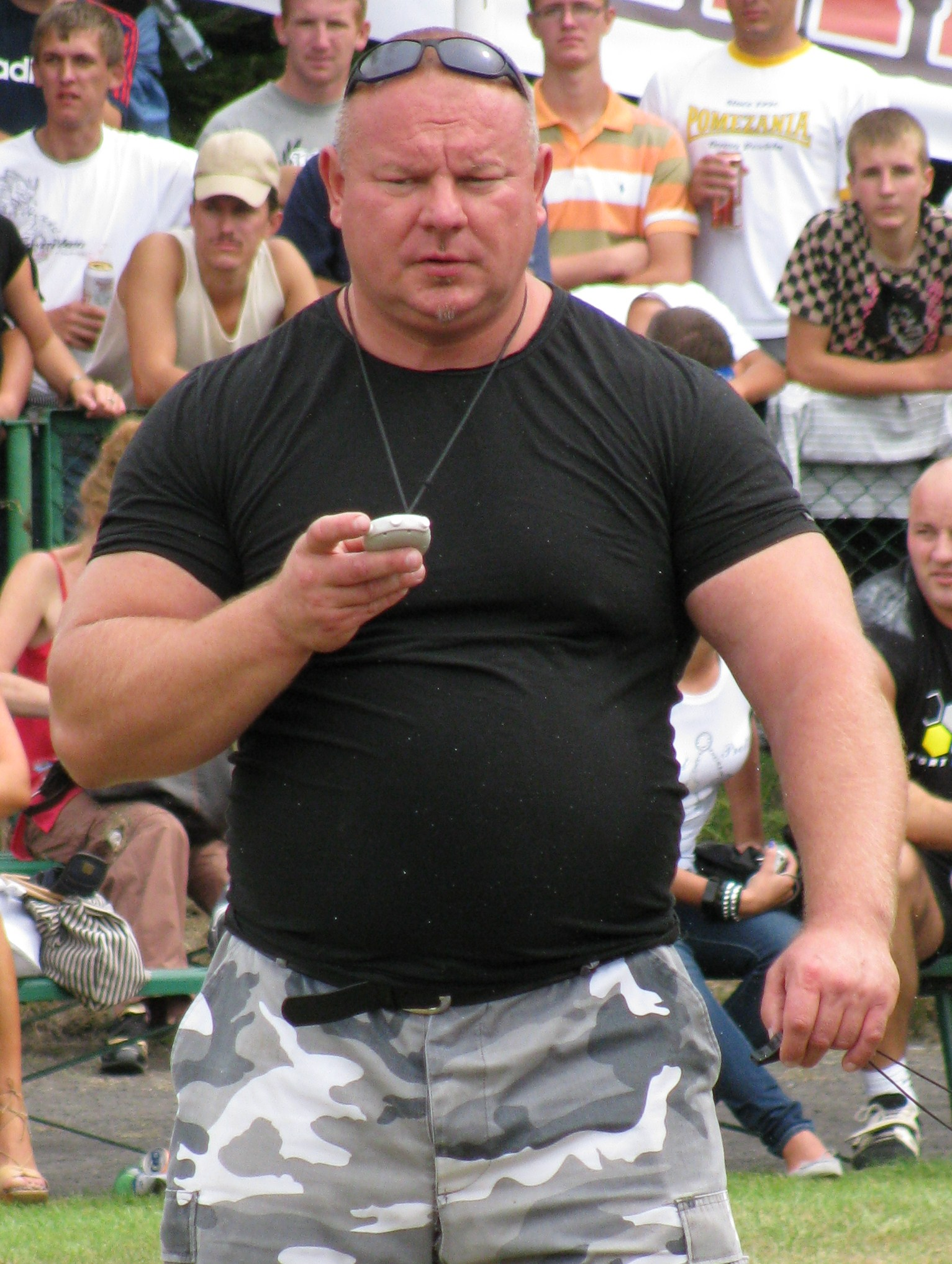 Grzegorz Peksa - a strength athlete from Poland